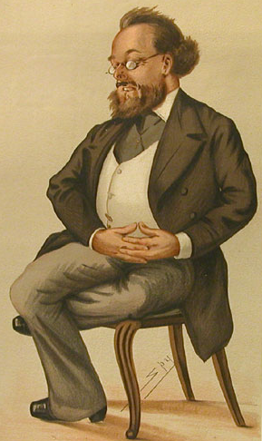 Odo Russell, 1st Baron Ampthill